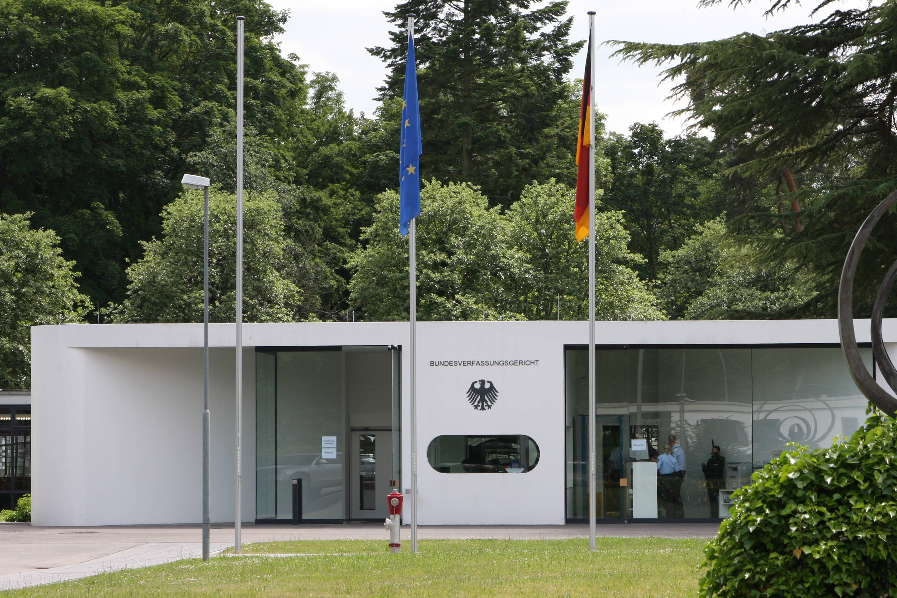 The Federal Constitutional Court of Germany, the temporary residence in Waldstadt (a district of Karlsruhe) during the three-year building phase (2011–2014)